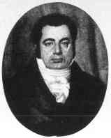 First President of Argentina Bernardino Rivadavia (1826-1827). Died 1845.